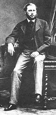 portrait of Otto zu Stolberg-Wernigerode